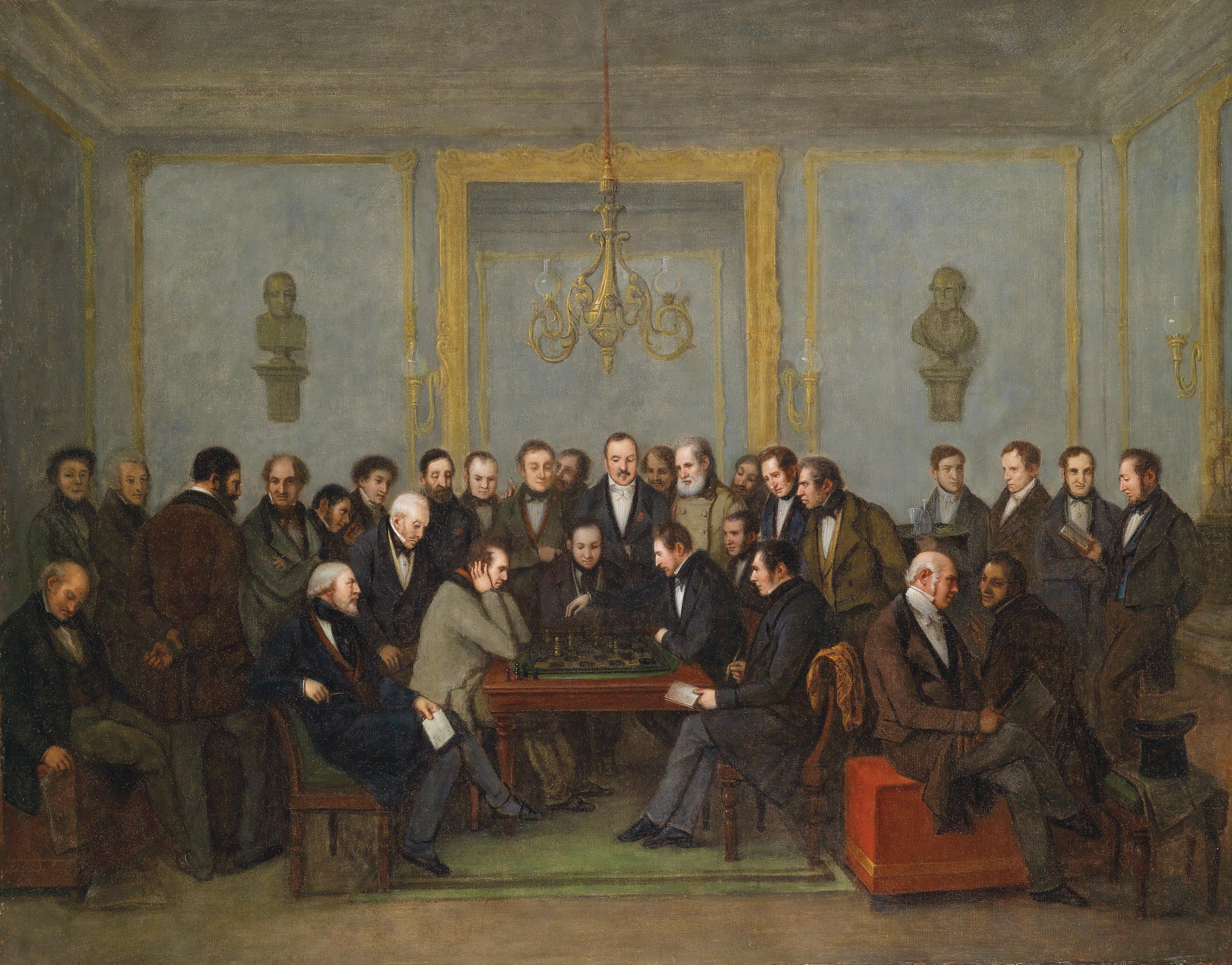 Jean-Henri Marlet depicts the 19th game in a chess match between Howard Staunton and Pierre Charles Fournier de Saint-Amant which took place on 16 December 1843. Howard Staunton (1810 – 1874) was a British actor and Shakespeare scholar. He only learnt to play chess at the age of 20, and between 1843 and 1851 was regarded as the world’s best player. Pierre Charles Fournier de Saint-Amant (1800 – 1872) was a secretary in the Paris city government. He was the leading French chess master and publisher of the chess periodical “Le Palamède”. In the summer of 1843 Saint-Amant won a match against Howard Staunton in London. Consequently Staunton challenged Saint-Amant to a further match in November/December 1843 in the famous Parisian chess coffee house Café de la Régence. This match was regarded as the unofficial world championship. Of 21 games Staunton won 11, lost 6 and drew 4 times. A lithograph of this painting by Alexandre Leemlein (1812 – 1871) also exists, although Leemlein altered several of the famous personalities depicted, causing quite an uproar.